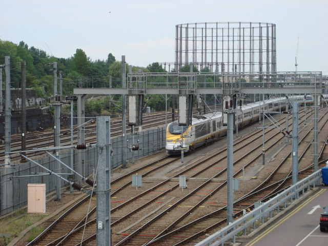 Eurostar at North Pole Maintenance Depot A Class 373 Eurostar train in the sidings at North Pole Maintenance Depot.